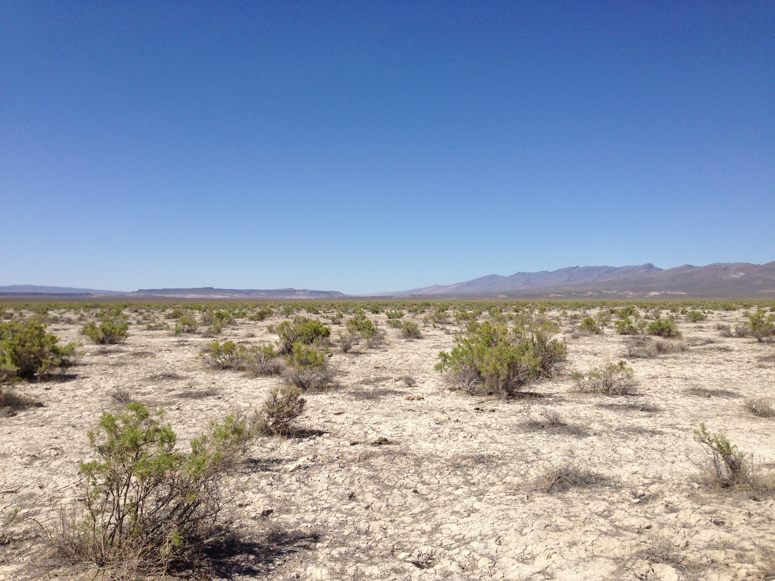 Desert near an old windmill along Nevada State Route 140 (Adel Road) near the eastern edge of the Sheldon National Wildlife Refuge, Nevada